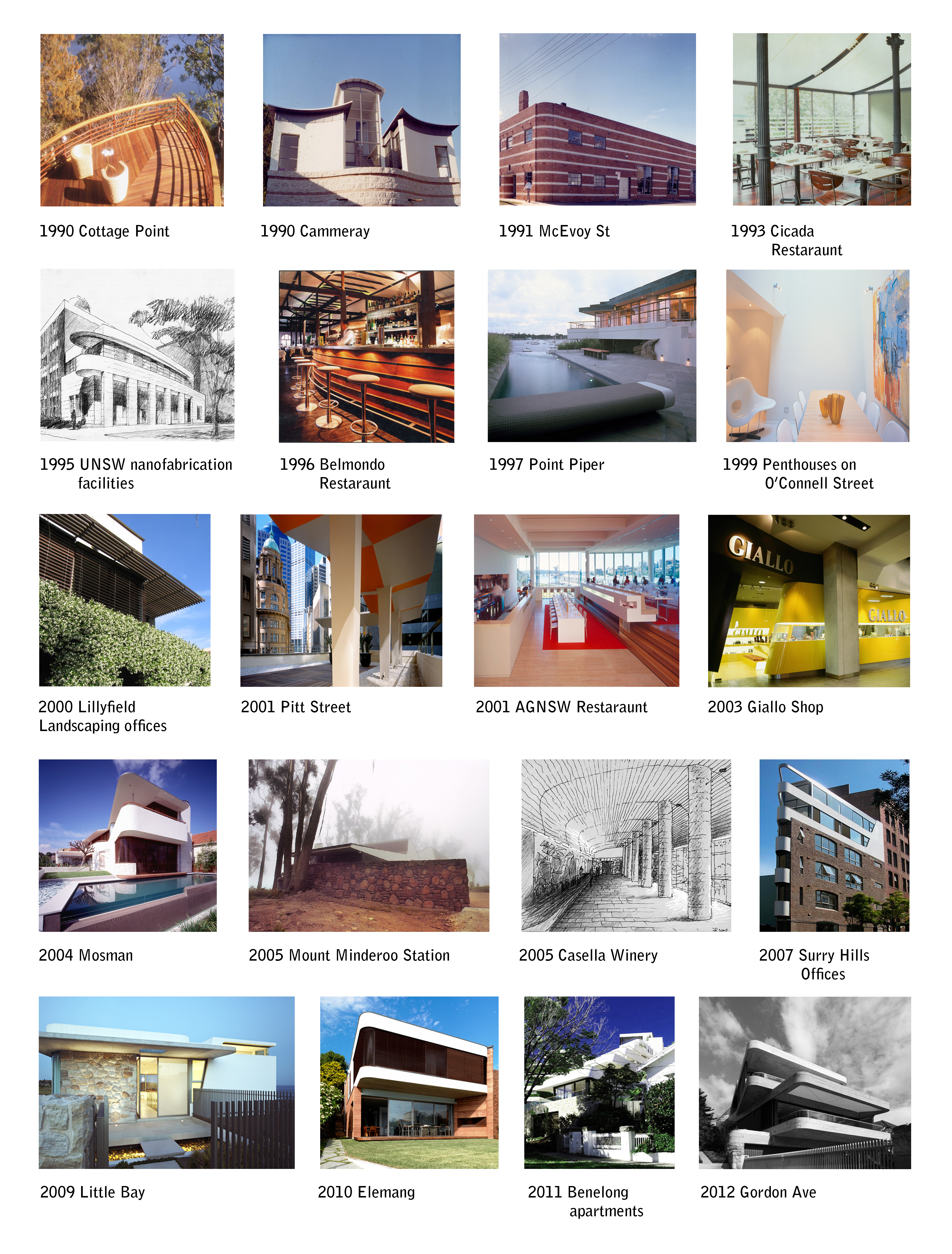 A chronological collection of some of Luigi Rosselli Architects most important building designs from 1990 to 2012.